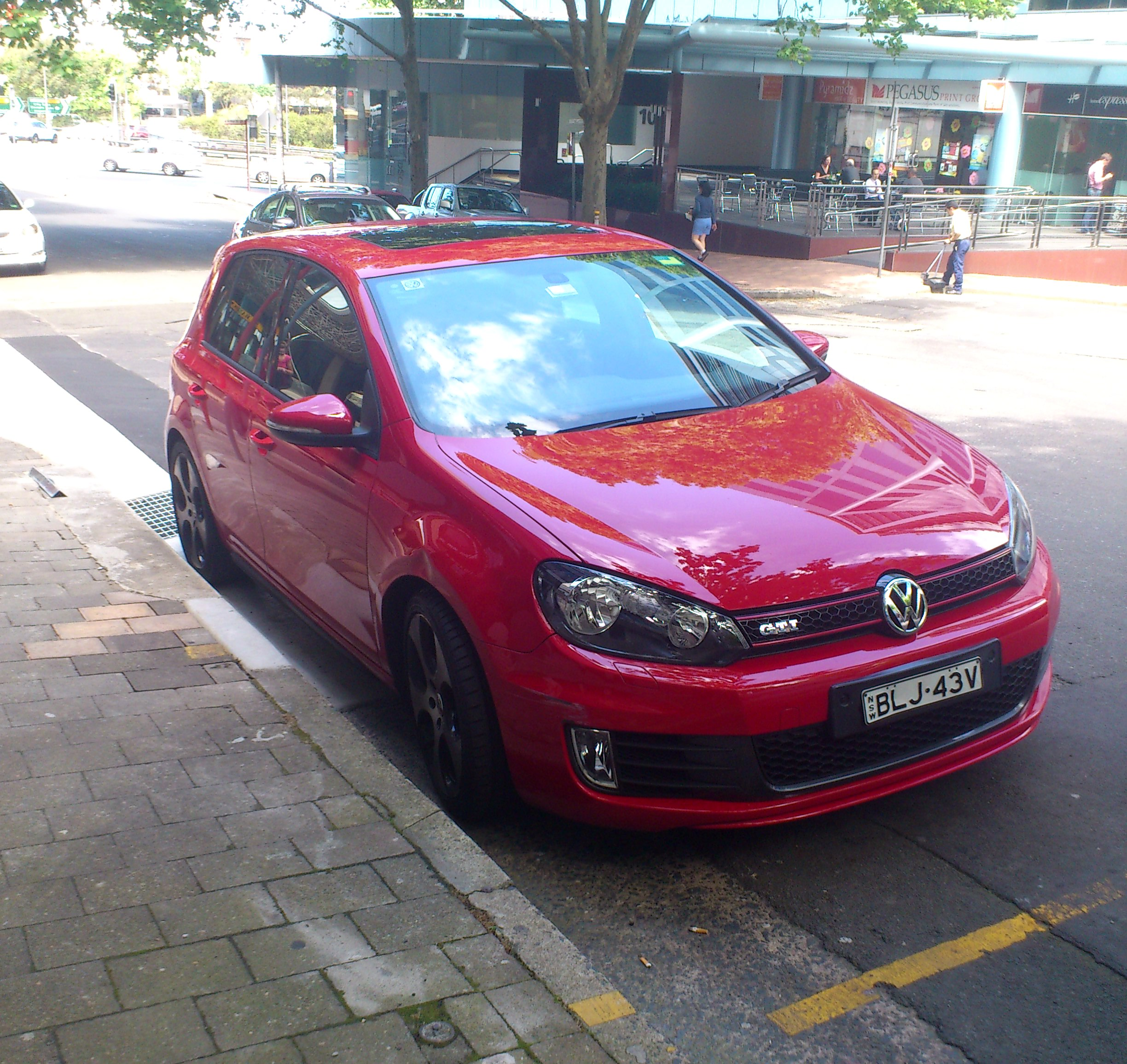 MK5 & 6 GTi's are everywhere